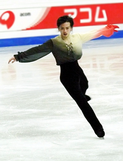 Yasuharu Nanri (JPN) at his free program at the World Championships in Figure Skating 2008 in Göteborg (SWE)